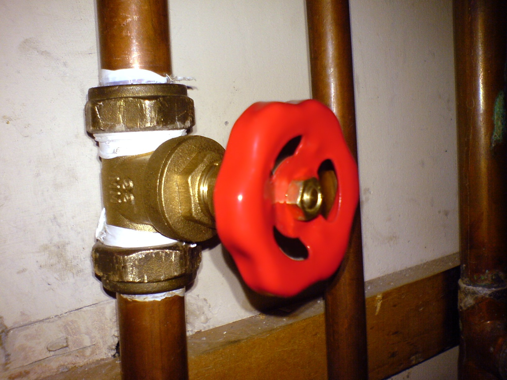 Gate Valve 22mm on domestic hot water pipe. Improper use of teflon sealing on a lock bush fitting